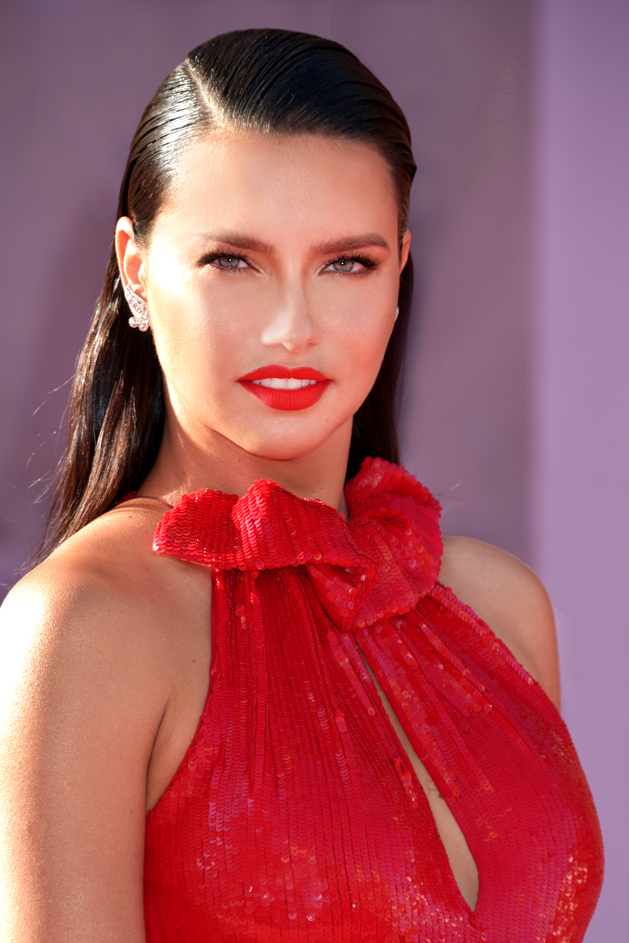 Adriana Lima attends the "Once Upon A Time In Hollywood" premiere in Hollywood California on July 22, 2019 - Photo by Glenn Francis of